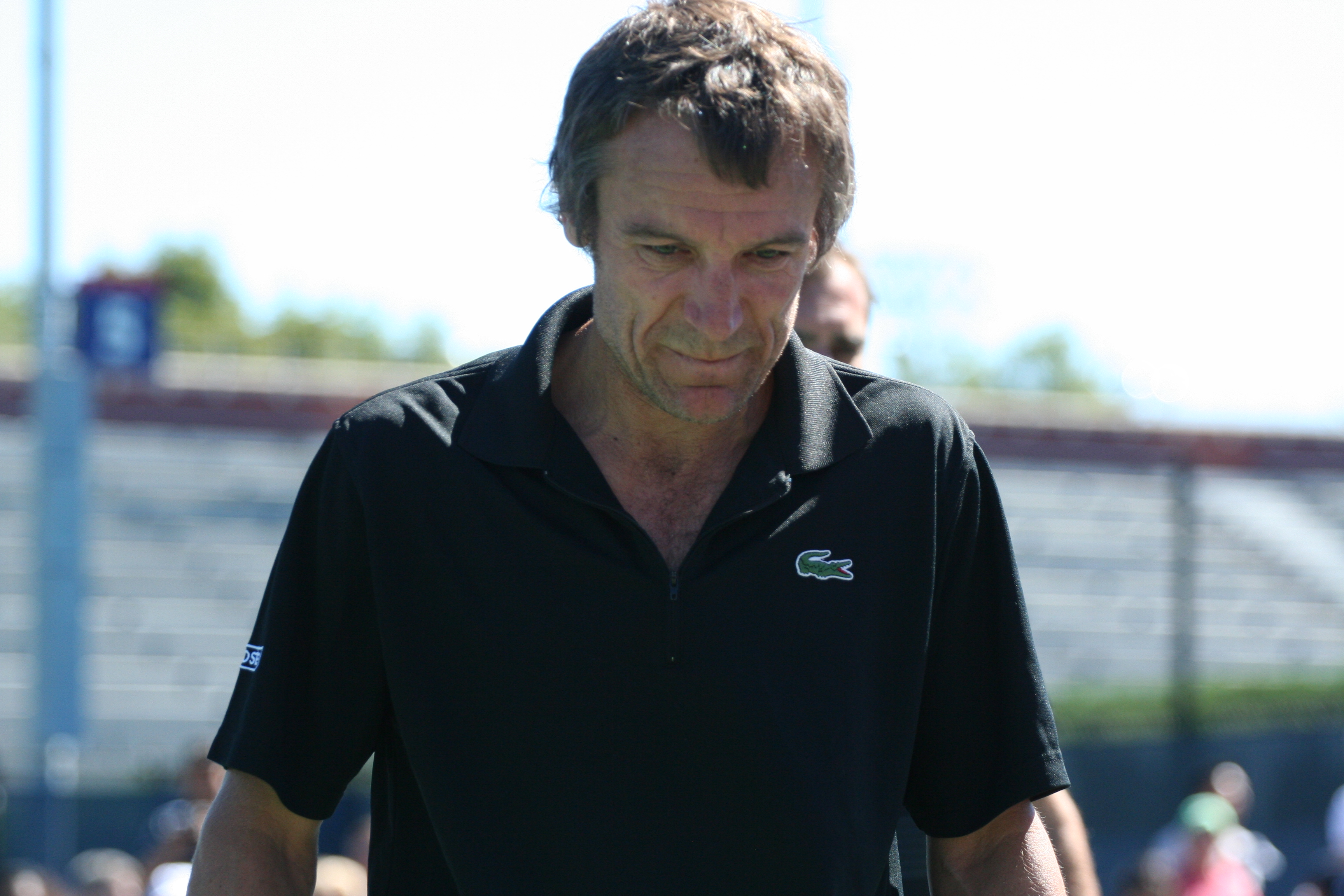 U.S. Open Champions Team Tennis Sept. 11, 2010